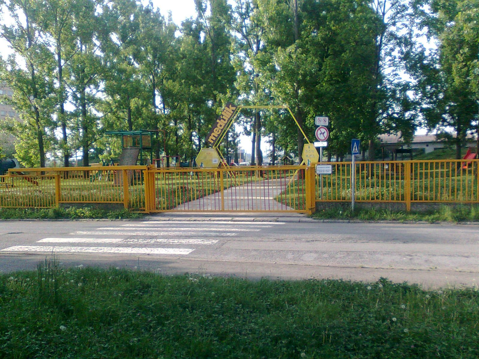 Childrens playground medulik in Kosice Saca - Slovakia